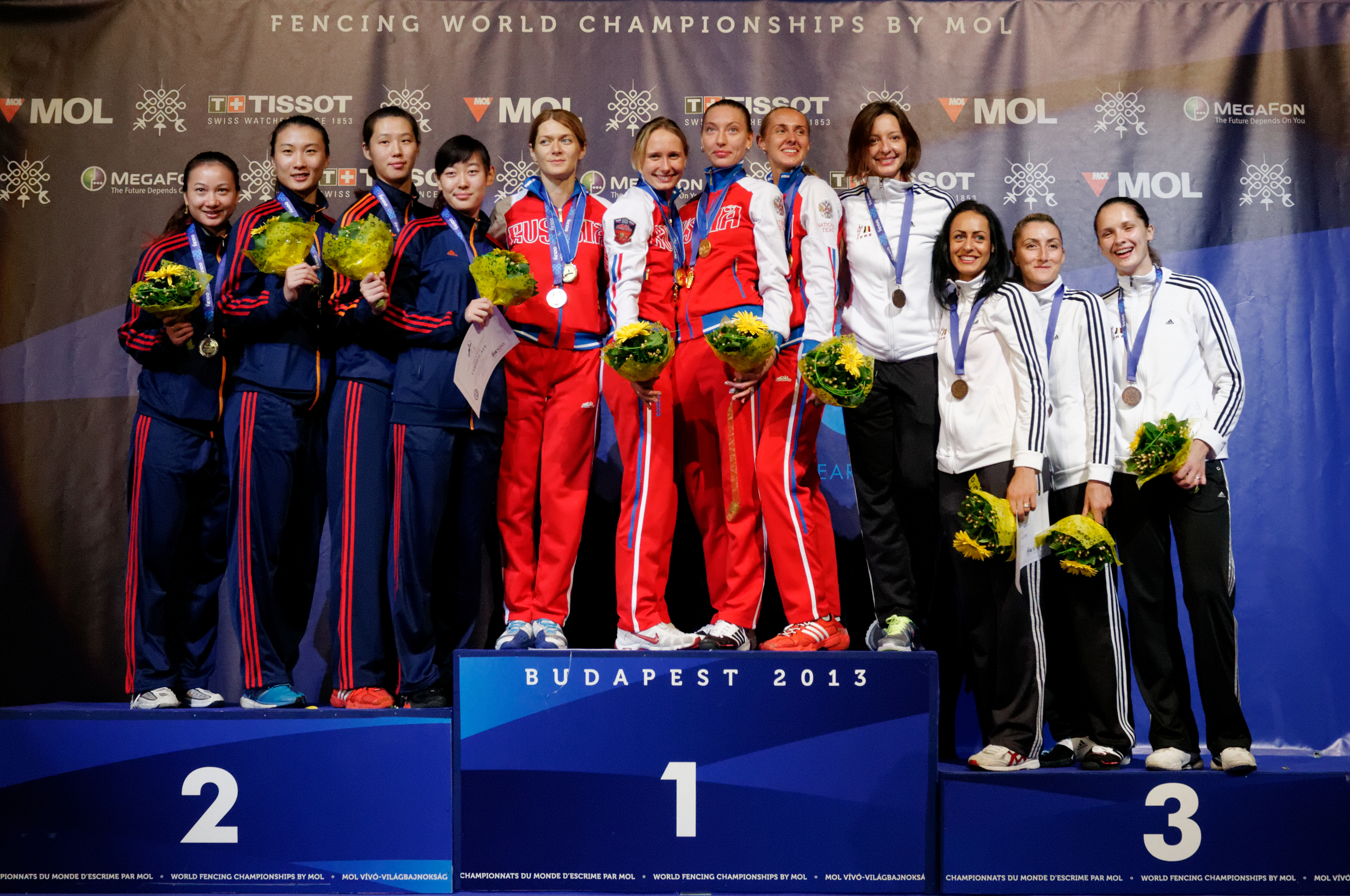 From left to right, China, Russia and Romania on the podium of the women's team épée at the 2013 World Fencing Championships 2013 at Syma Hall in Budapest on 11 August 2013.